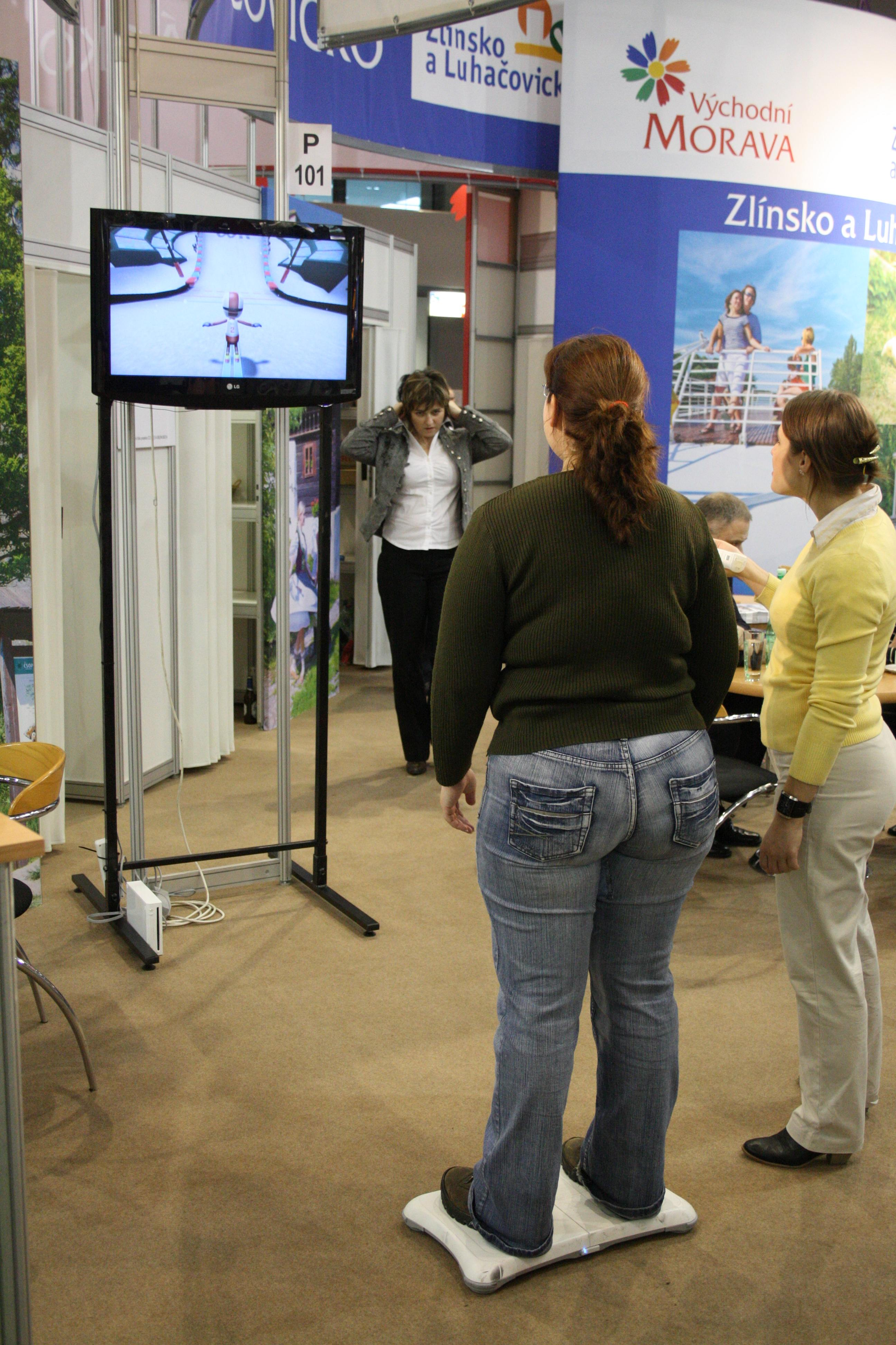 Presentation of various touristic destinations of Czech Republic.